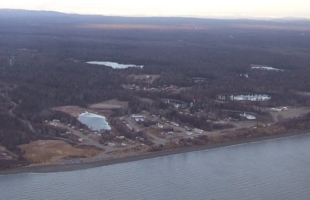 Aerial photo of Tyonek AK